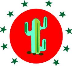 Coat of arms of this department of Guatemala